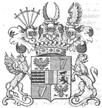 Coat of arms of the Langenstein-Gondelsheim noble house, descendants of Louis I, Grand Duke of Baden